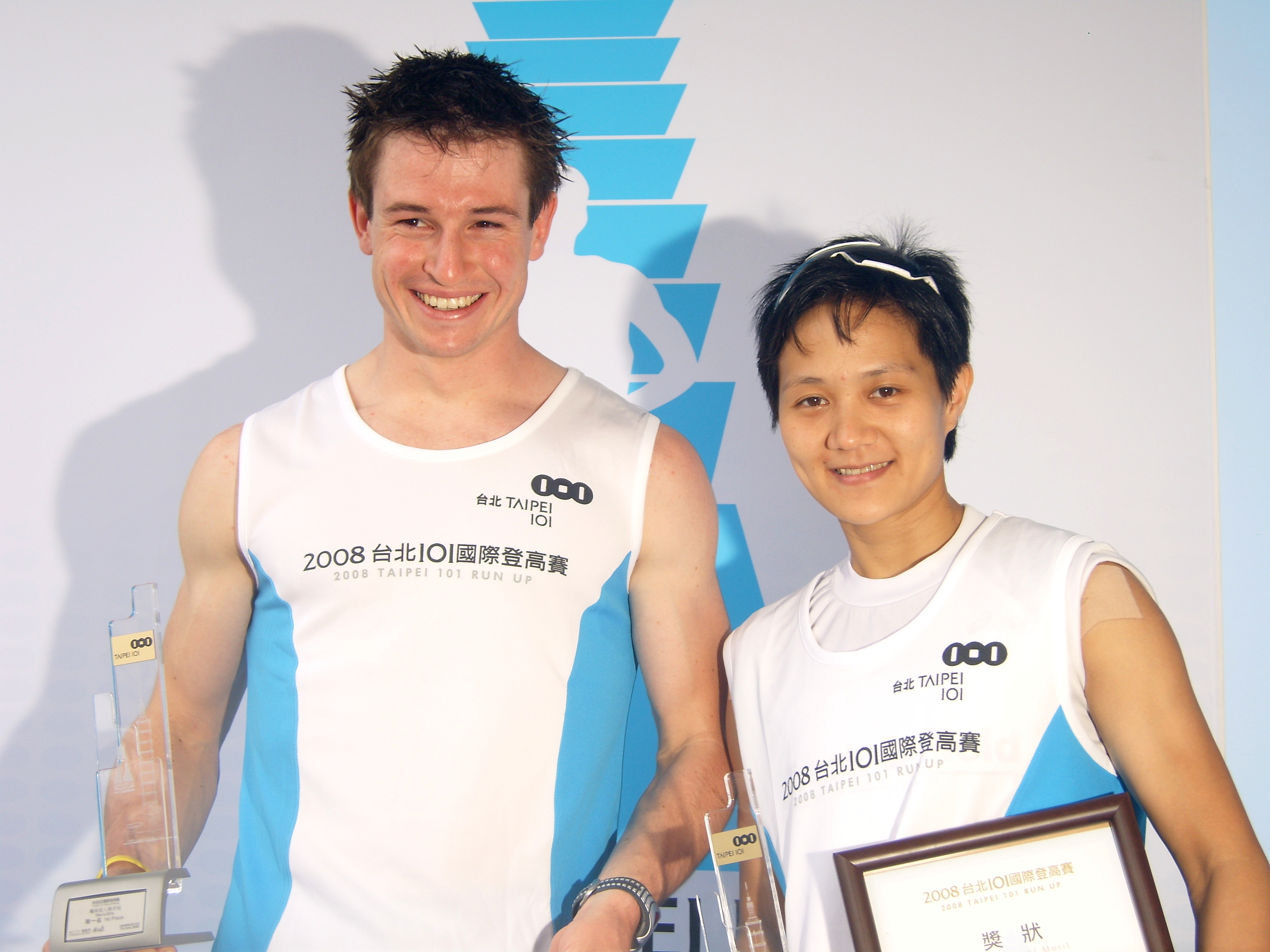 2008 Taipei 101 Runner Up: Champions of Elite Runners - Thomas Dold (left) and Jenny Li (right).